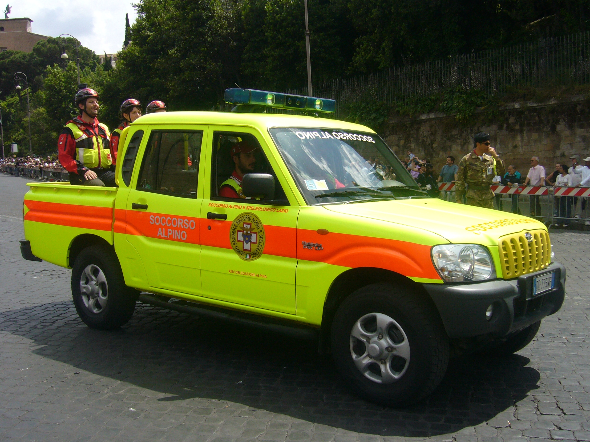 Mahindra Pick-up of the Mountain and Speleological National Rescue Service (CNSAS), XXIV section of Lazio, during the military parade in Rome